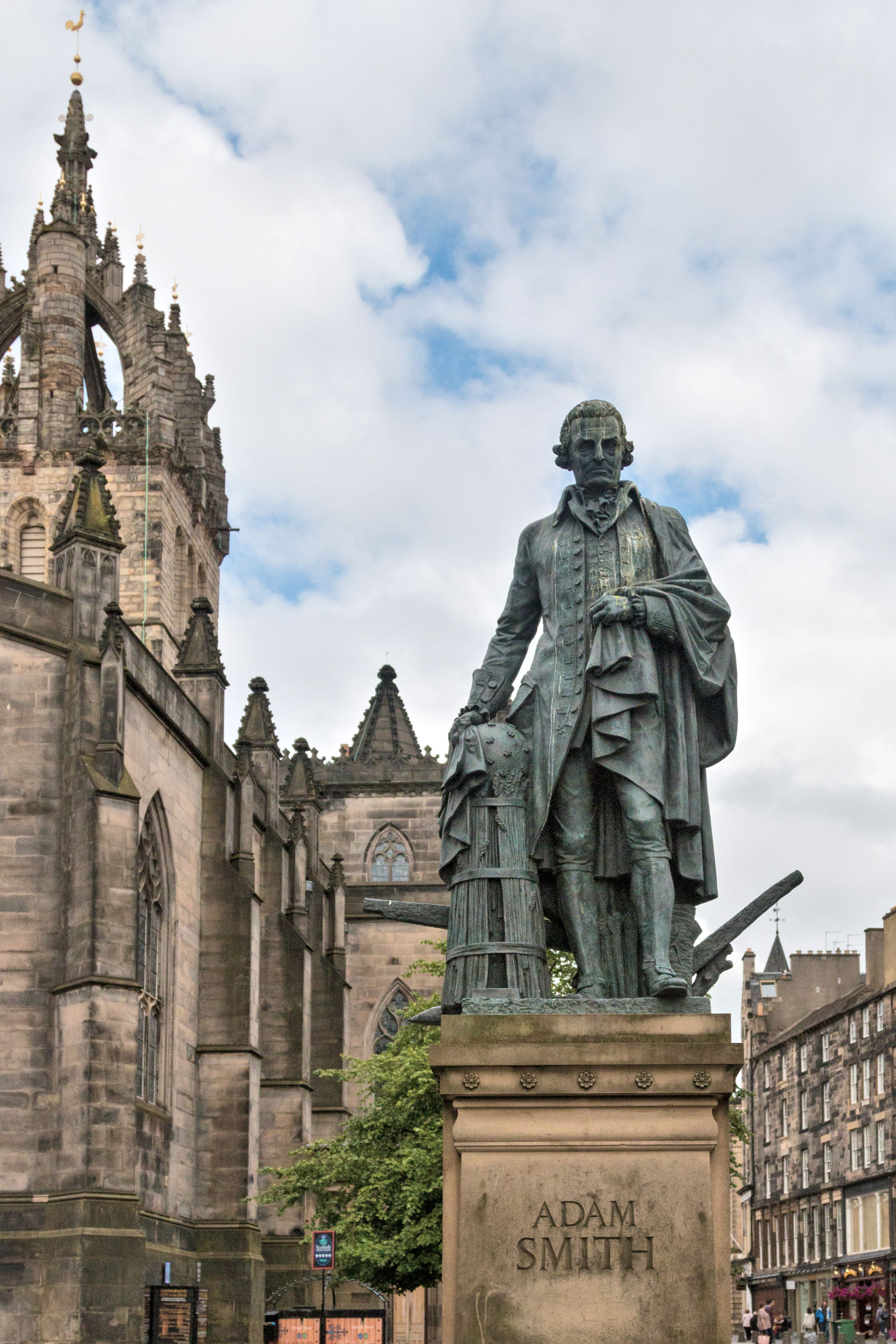 Bronze statue of Adam Smith, a philosopher during the Scottish Enlightenment, in front of St. Giles' Cathedral on the Royal Mile in Edinburgh by Alexander Stoddar.